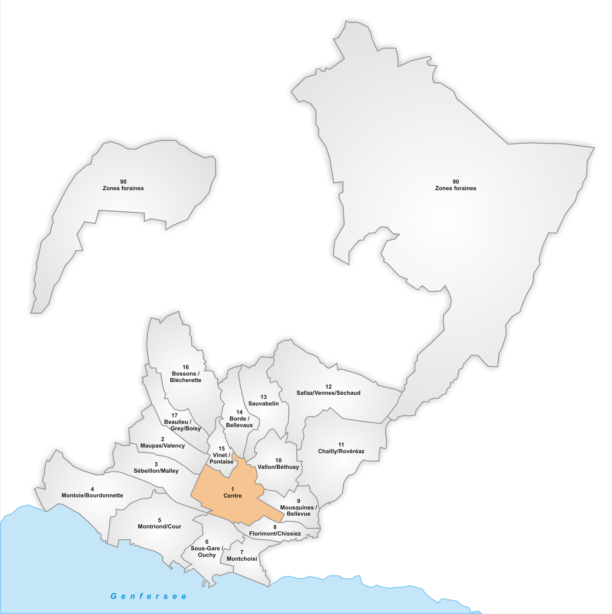 Lausanne Quarter 1